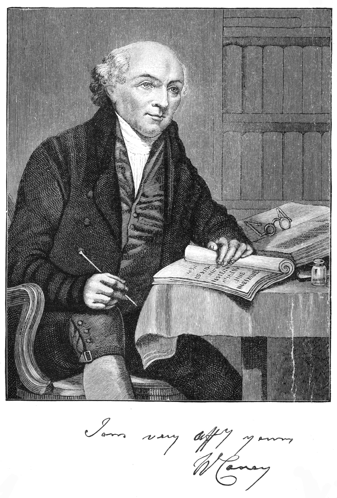 William Carey DD, Professor of Sanskrit, Marathi and Bengali in Calcutta